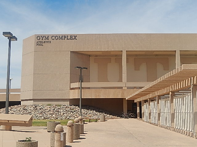 I took photo of gym complex at UTPB in Odessa, TX, with Nikon camera.